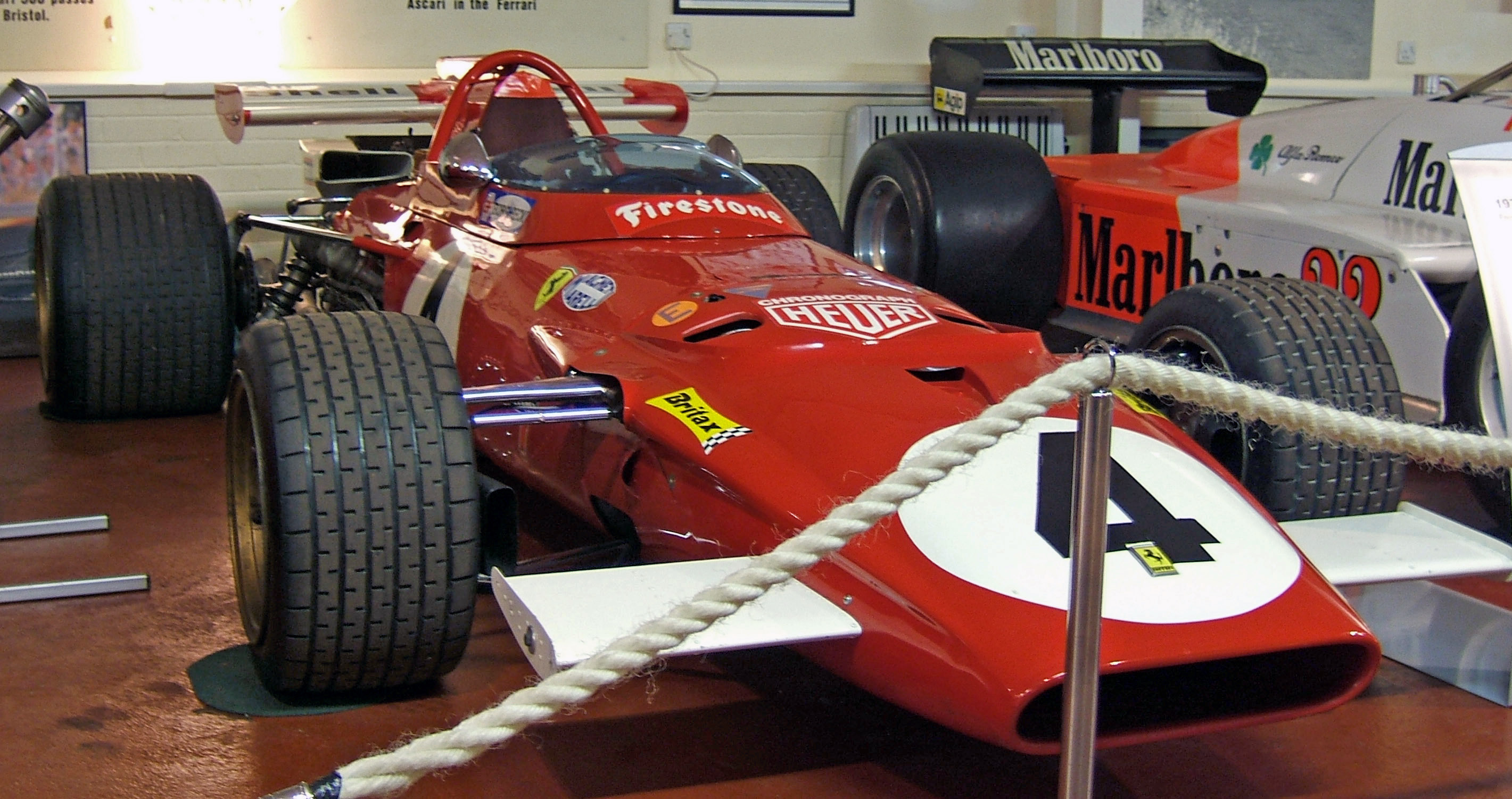 Ferrari 312B Formula One car (1970). In the Donington Grand Prix Collection museum, Leics., UK.